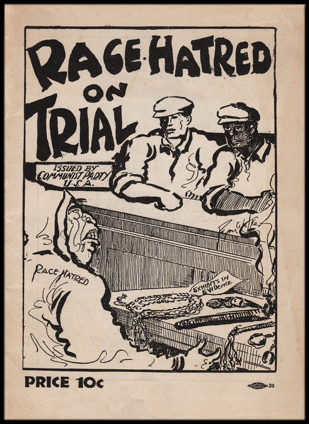 Cover of the Communist propaganda pamphlet Race Hatred on Trial [1931]. Published by Workers Library Publishers, New York. From a specimen in the Tim Davenport collection, digitized by me (Tim Davenport) for Wikipedia, no copyright claimed.